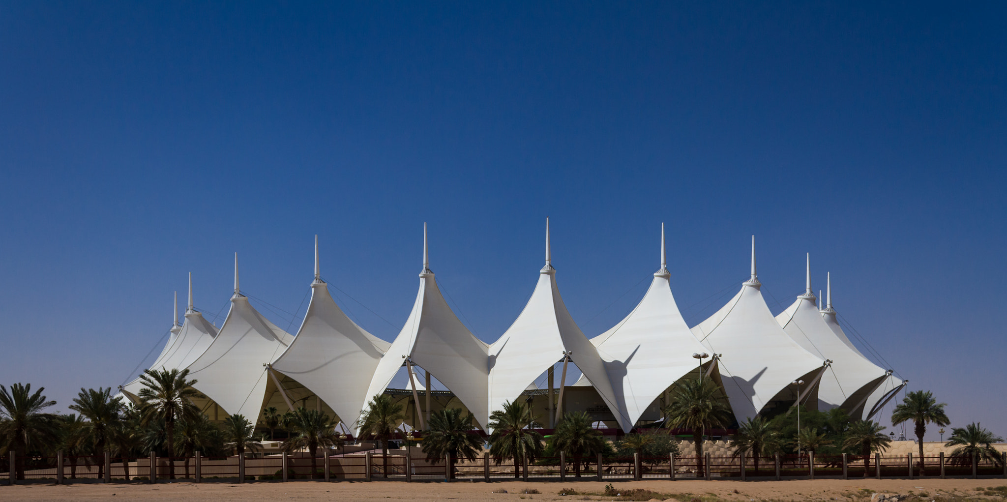 500px provided description: ????? ????? ??? ?????? - King Fahd International Stadium [#?????? ,#Stadium ,#???? ????? ??????? ,#???? ????? ,#??????? ,#King Fahd International Stadium ,#????? ????? ??? ?????? ,#????? ????? ??? ,#????? ???????]